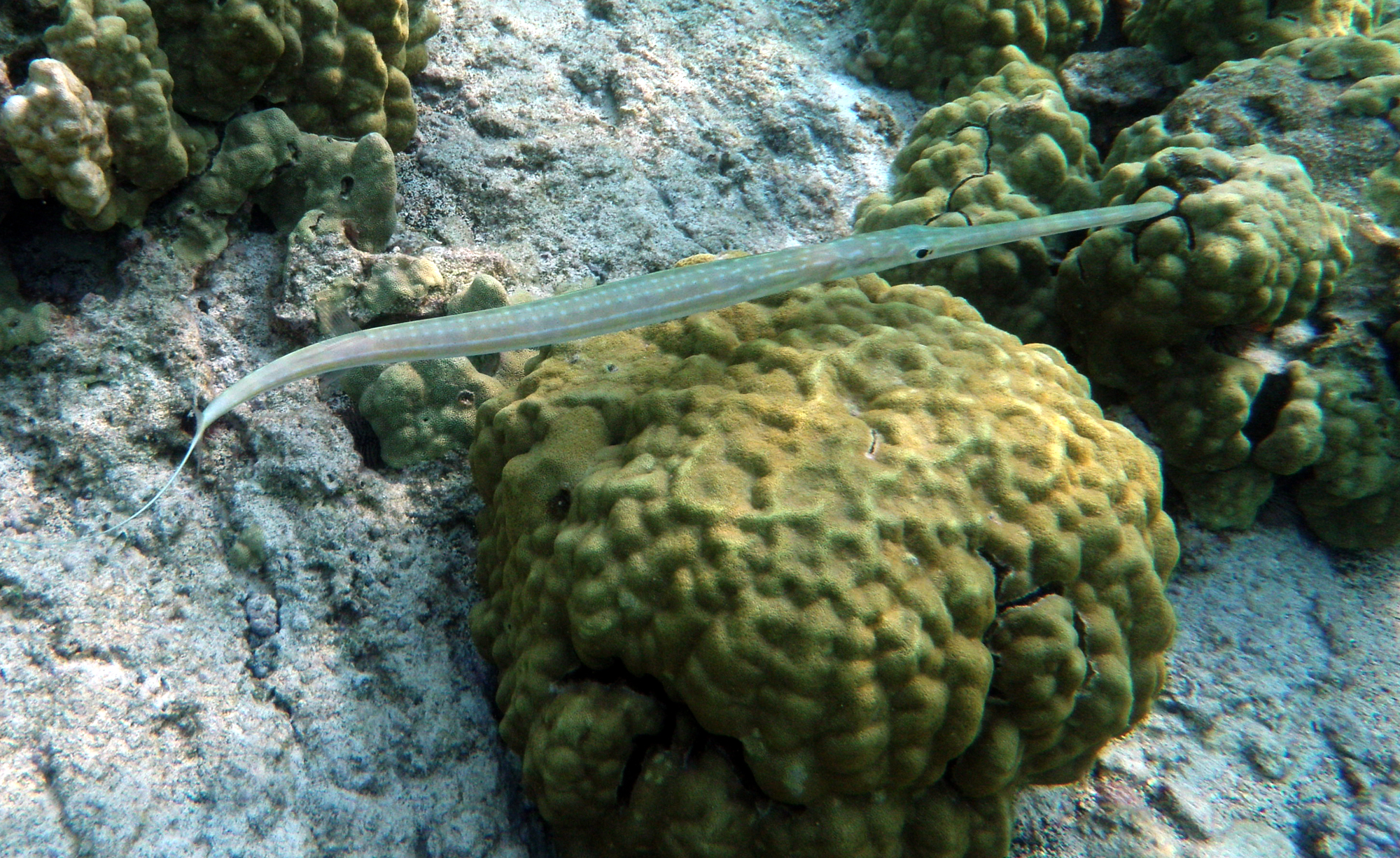 Cornetfish, Fistularia commersonii in Kona Hawaii